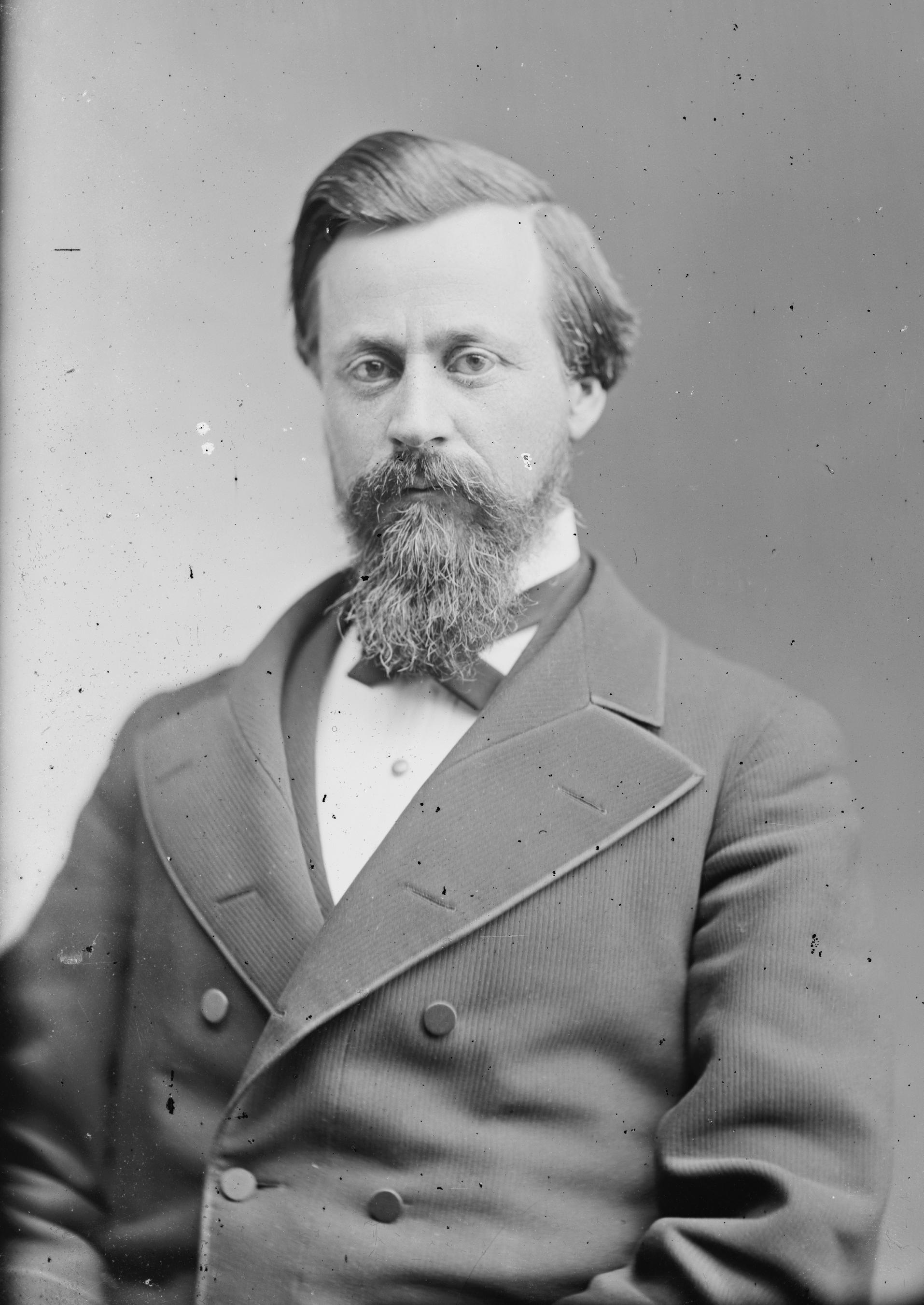 Henry W. Blair. Library of Congress description: "Blair, Hon. Henry W. of N.H."